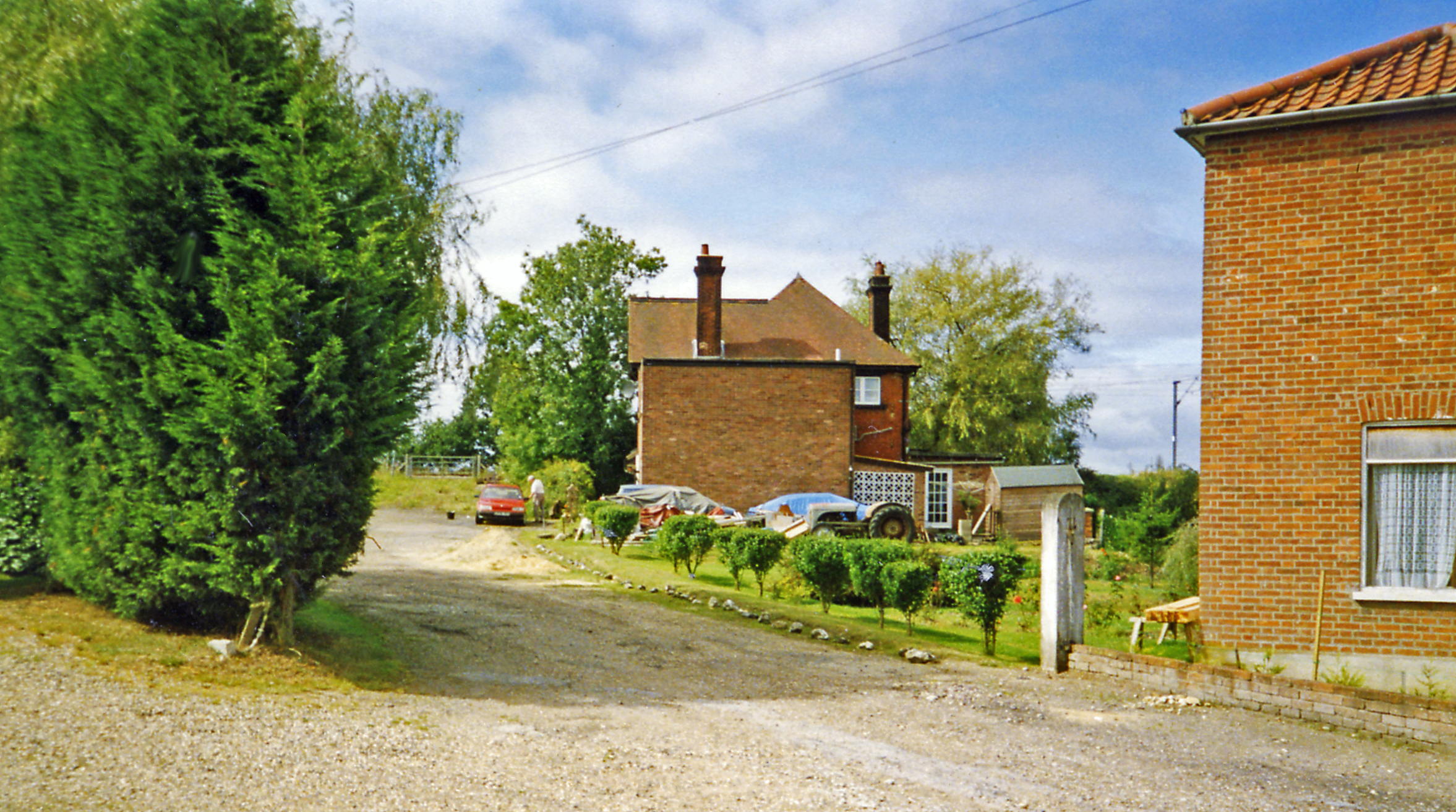 Forncett station (remains), 1993. View westward to the former station approach: ex-GER London etc. - Ipswich - Norwich main line, electrified 1986. The station was closed 7/11/66, but seems to have become a private dwelling. Until 6/8/51 it was also the junction of a branch to Wymondham.